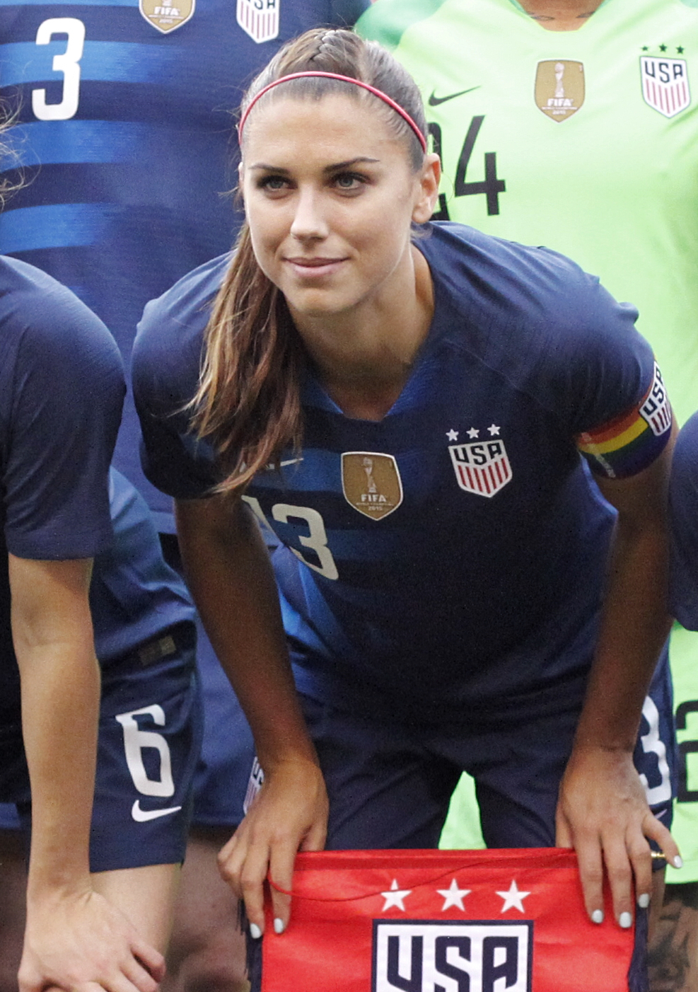 United States vs China June 12, 2018